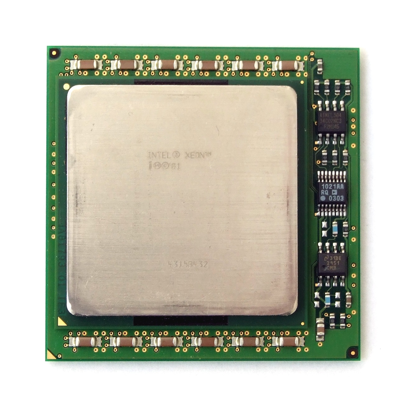 Intel Xeon MP Gallatin-2048 / S-Spec: SL66Z / 2 Ghz